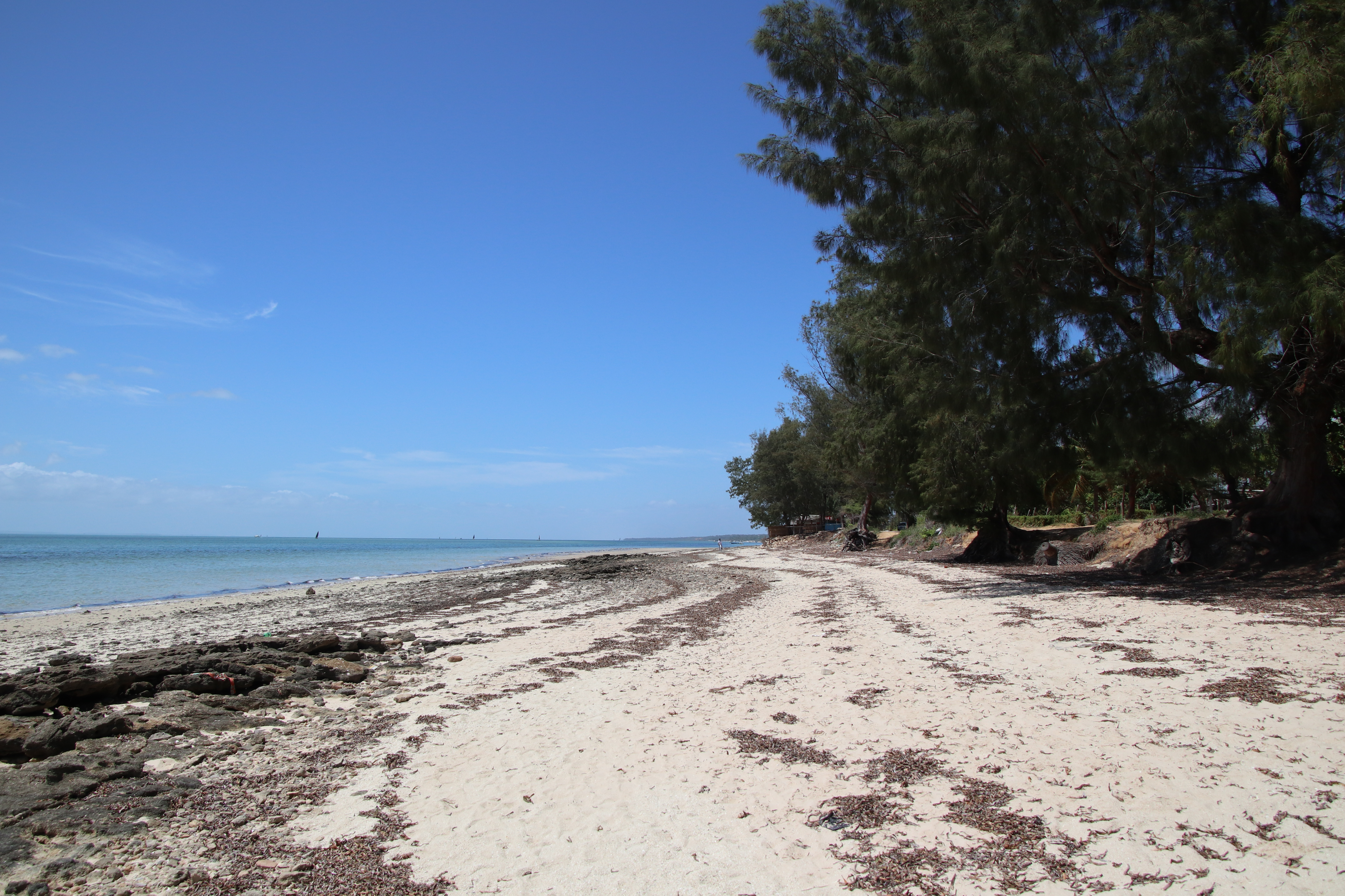 Vilaculos beach Mozambique This photo was taken by Tom Corser and is © Tom Corser 2020. This photo may be reproduced under the terms of the Creative Commons Attribution-ShareAlike 3.0 Unported Licence [1] (unless otherwise stated). Please credit this photo Tom Corser If using this photo, make sure you properly credit and specify the licence that this photo is licensed under. (E.g. "Photo by Tom Corser Licensed under Creative Commons Attribution-ShareAlike 3.0 Unported Licence: If you would like to use this photo under a different license, please contact me via or . Attribution: Tom Corser